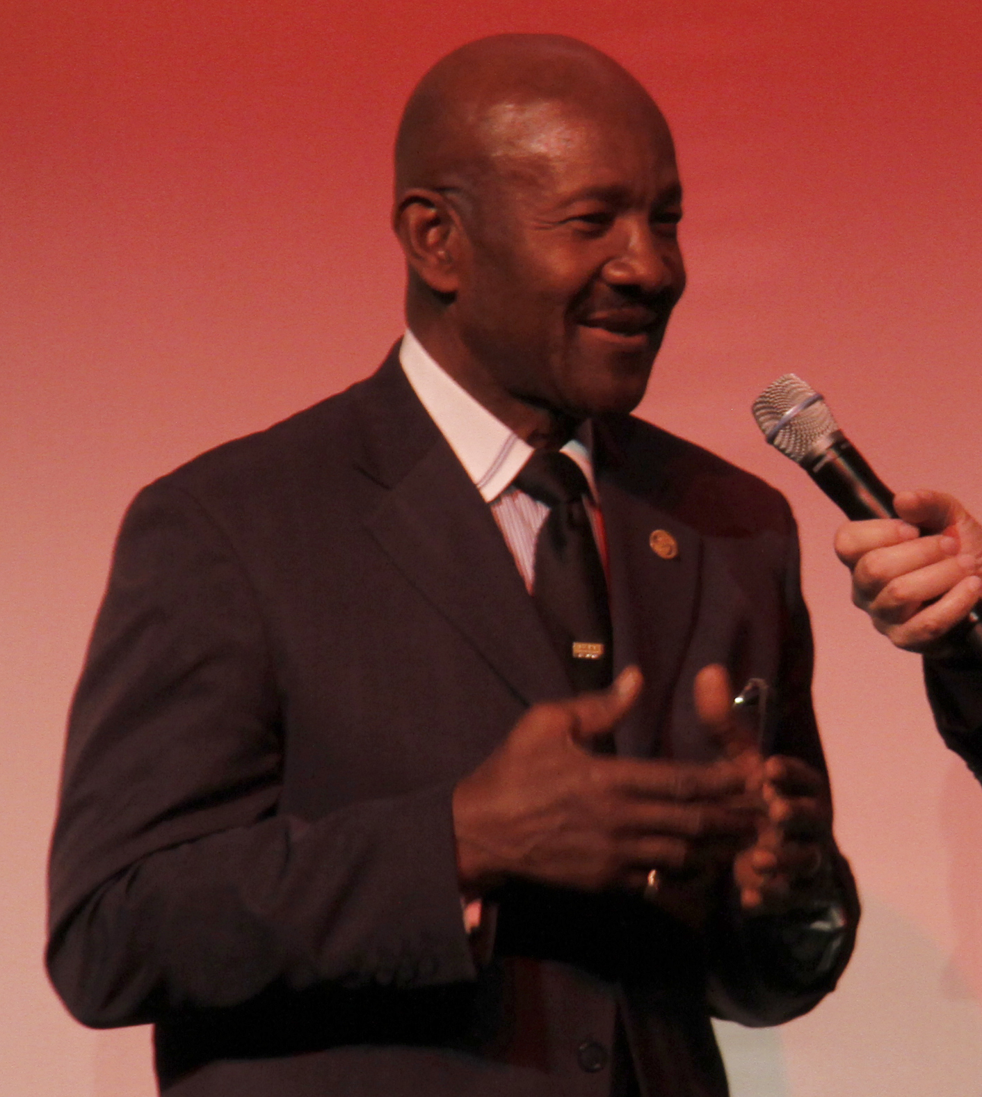 L: Fred Lee Valentine (January 19, 1935 in Clarksdale, Mississippi) is a former Major League Baseball outfielder. He played all or part of seven seasons in the majors from 1959-1968 for the Baltimore Orioles and Washington Senators. He also played one season in Japan for the Hanshin Tigers in 1970.